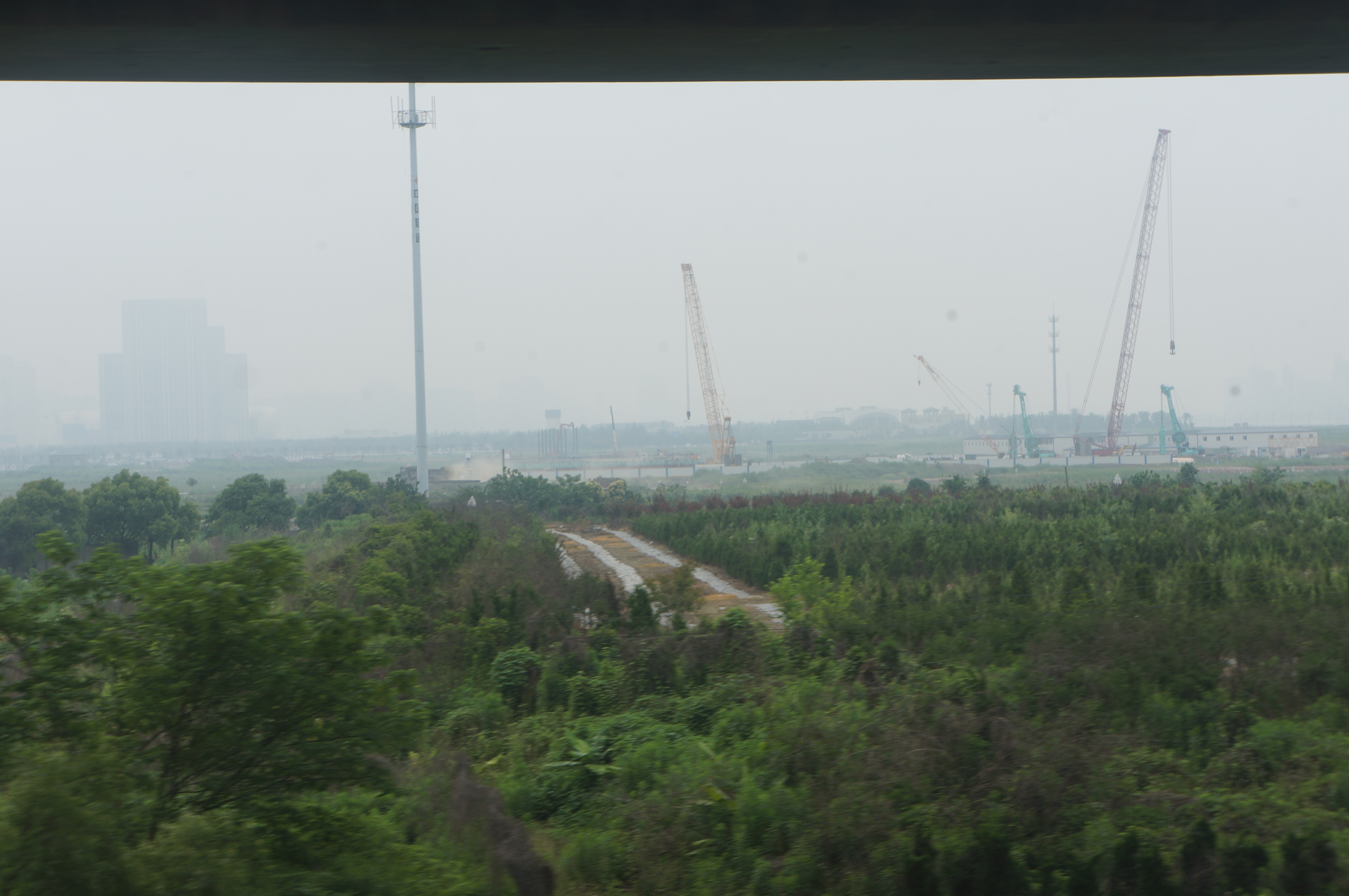 201806 Metro Construction at Fengbei